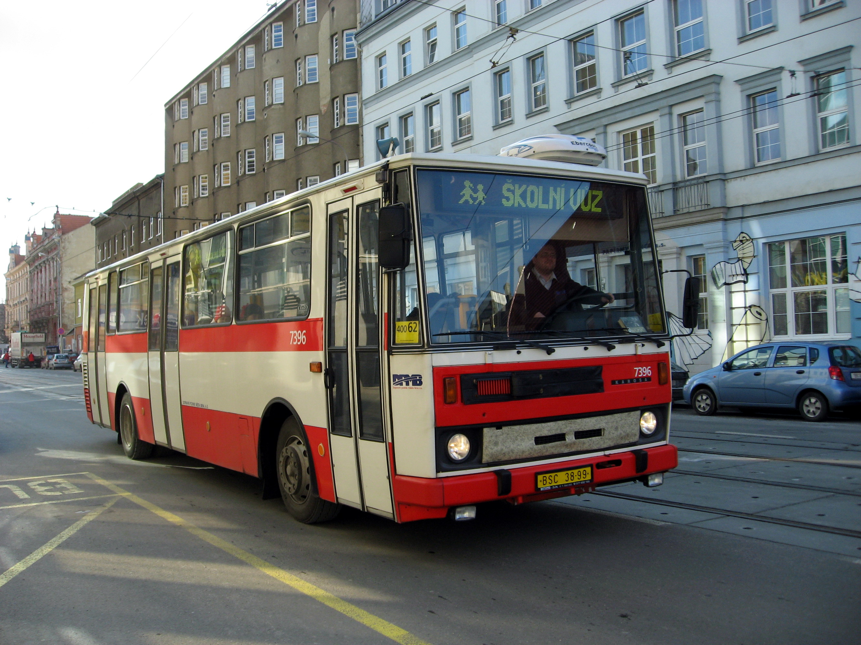 Karosa B 732 school bus (#7396) in Brno, Czech Republic.